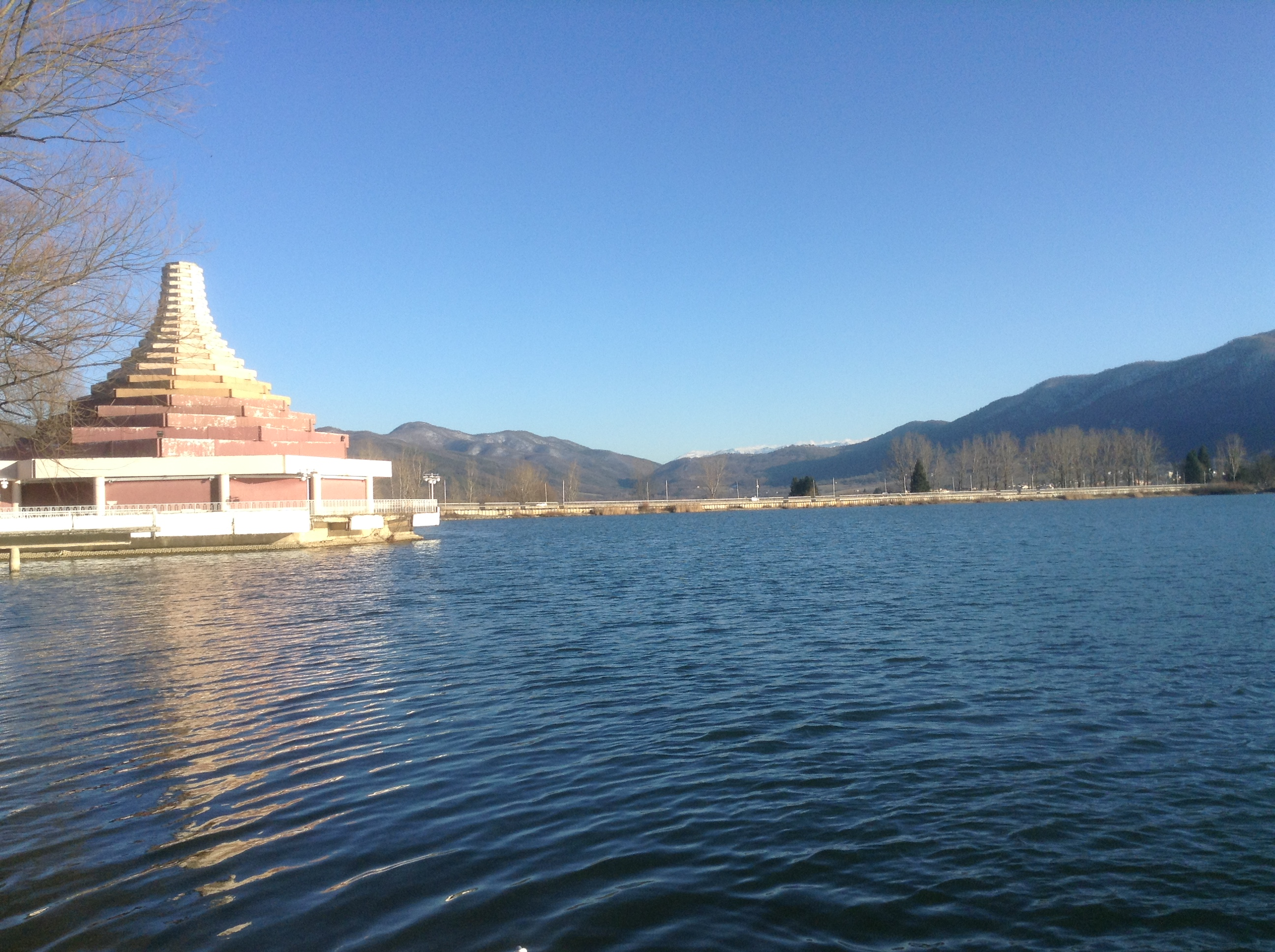 Pravetz lake and beach amenities